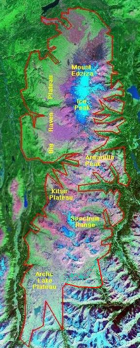 Map of the Mount Edziza volcanic complex